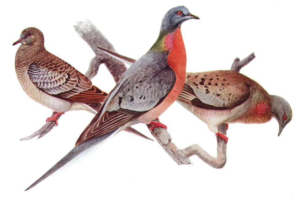 Passenger Pigeon, Ectopistes migratorius, juvenile (left), male (center), female (right), offset reproduction of watercolor.